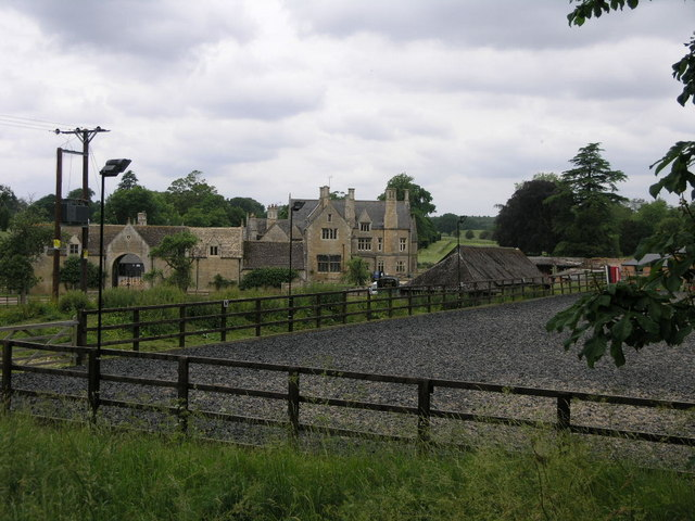 Fermyn Wood Hall. It would appear that part of Fermyn Wood has had to give way to create the parkland which surrounds the hall.